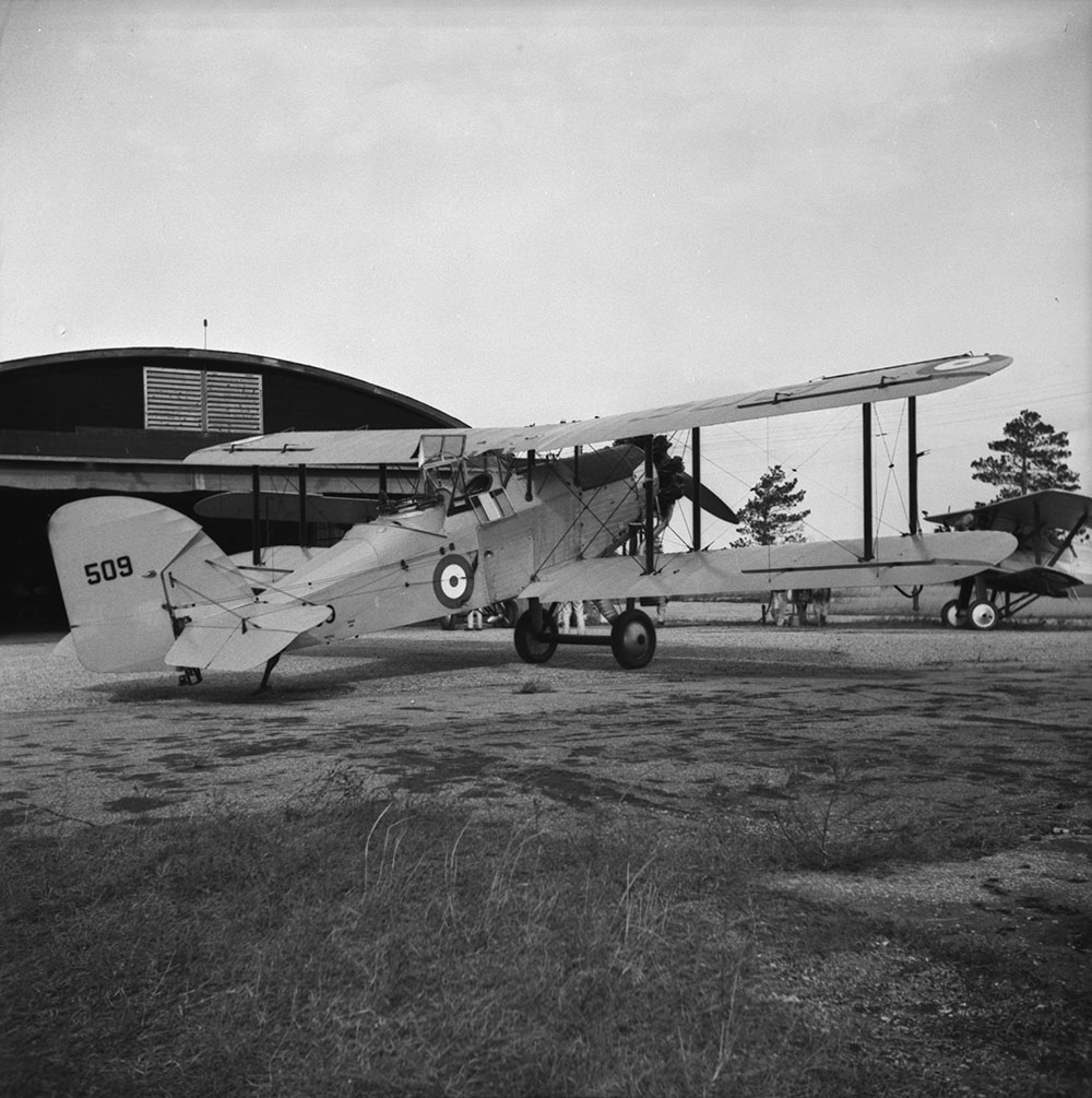 Westland Wapiti Mark IIA aircraft 509 of No. 3 Squadron, R.C.A.F. at Camp Borden